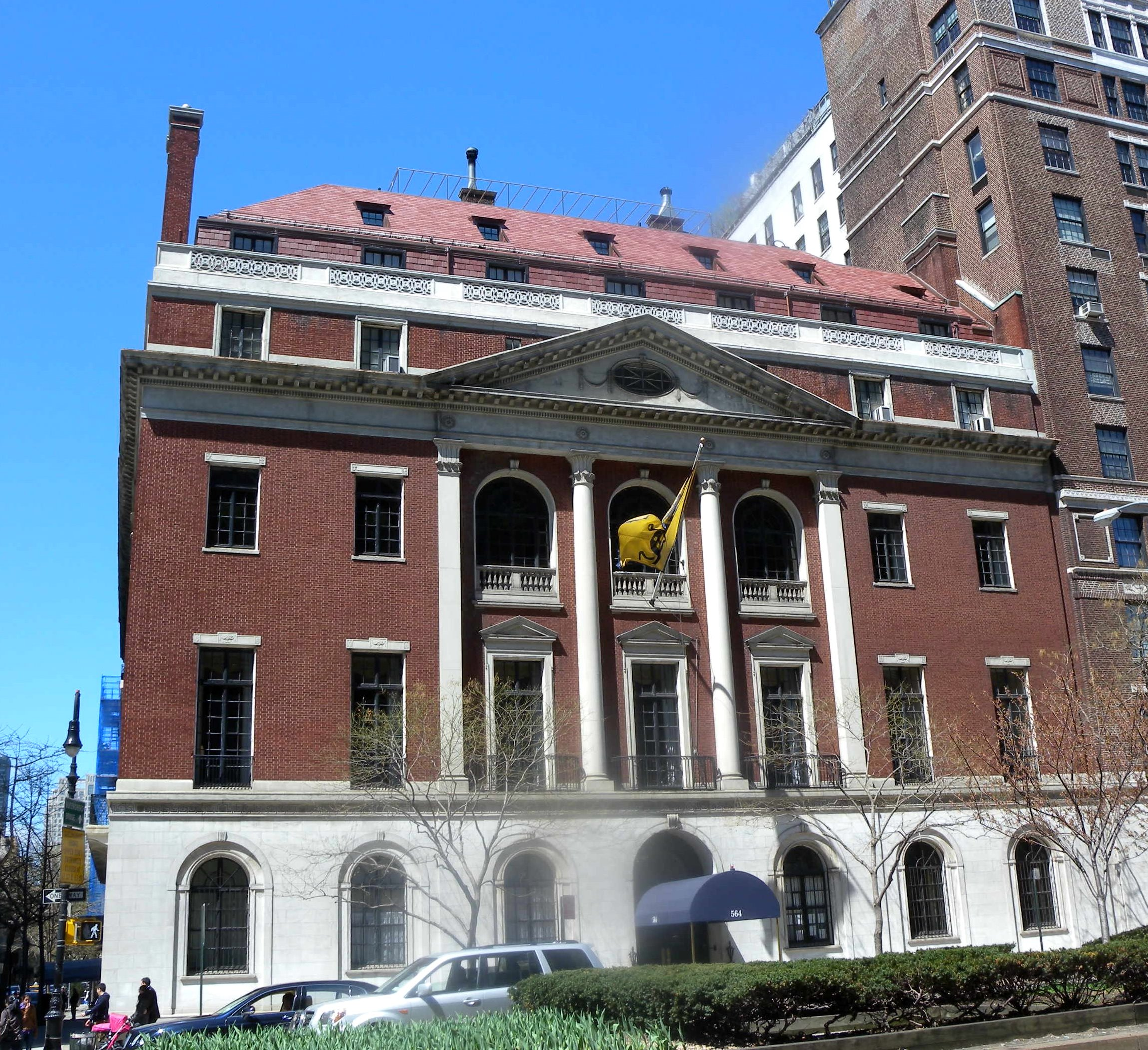 Looking west across Park Avenue at second Colony Club on a sunny midday.